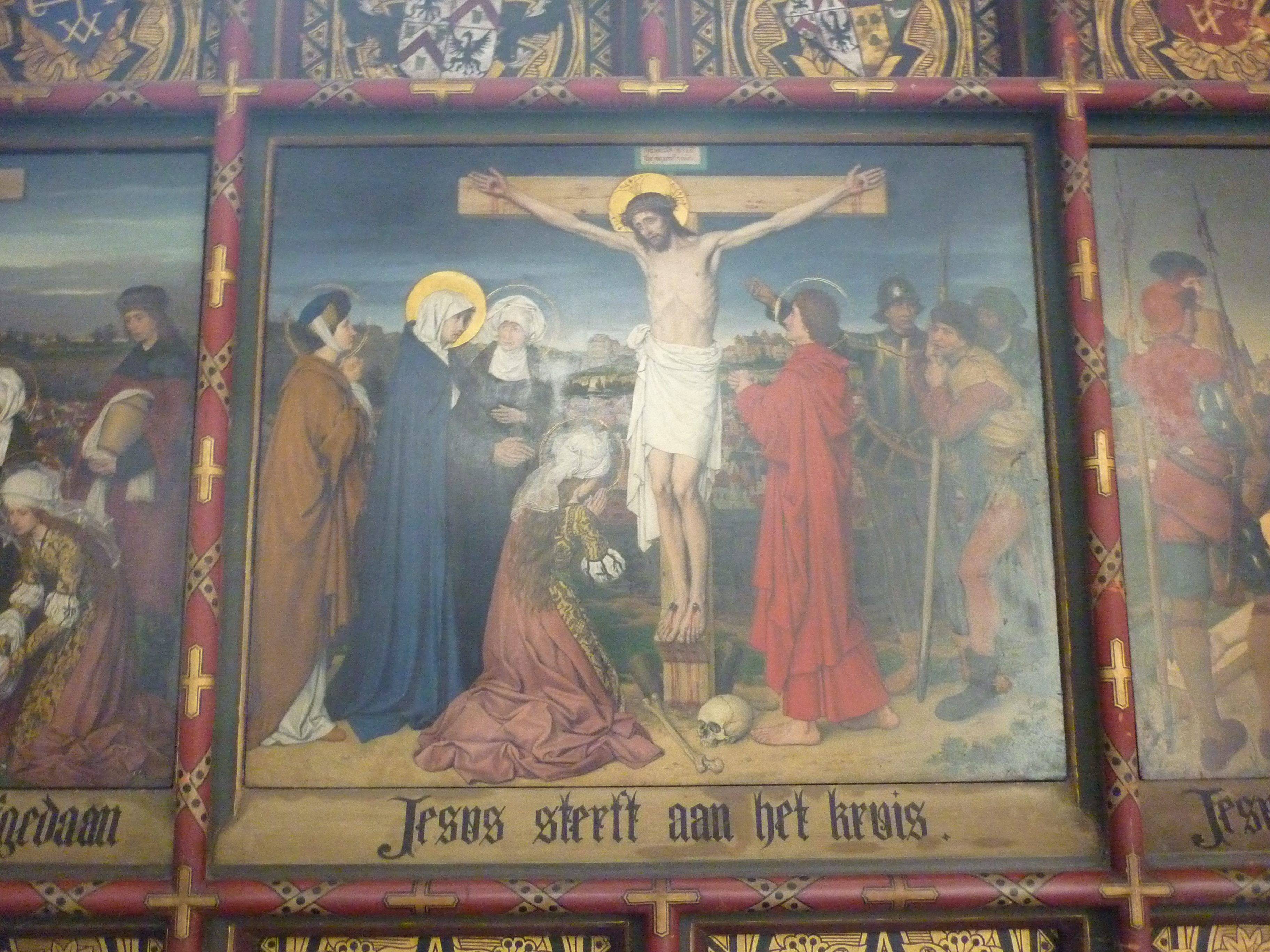 Stations of the cross